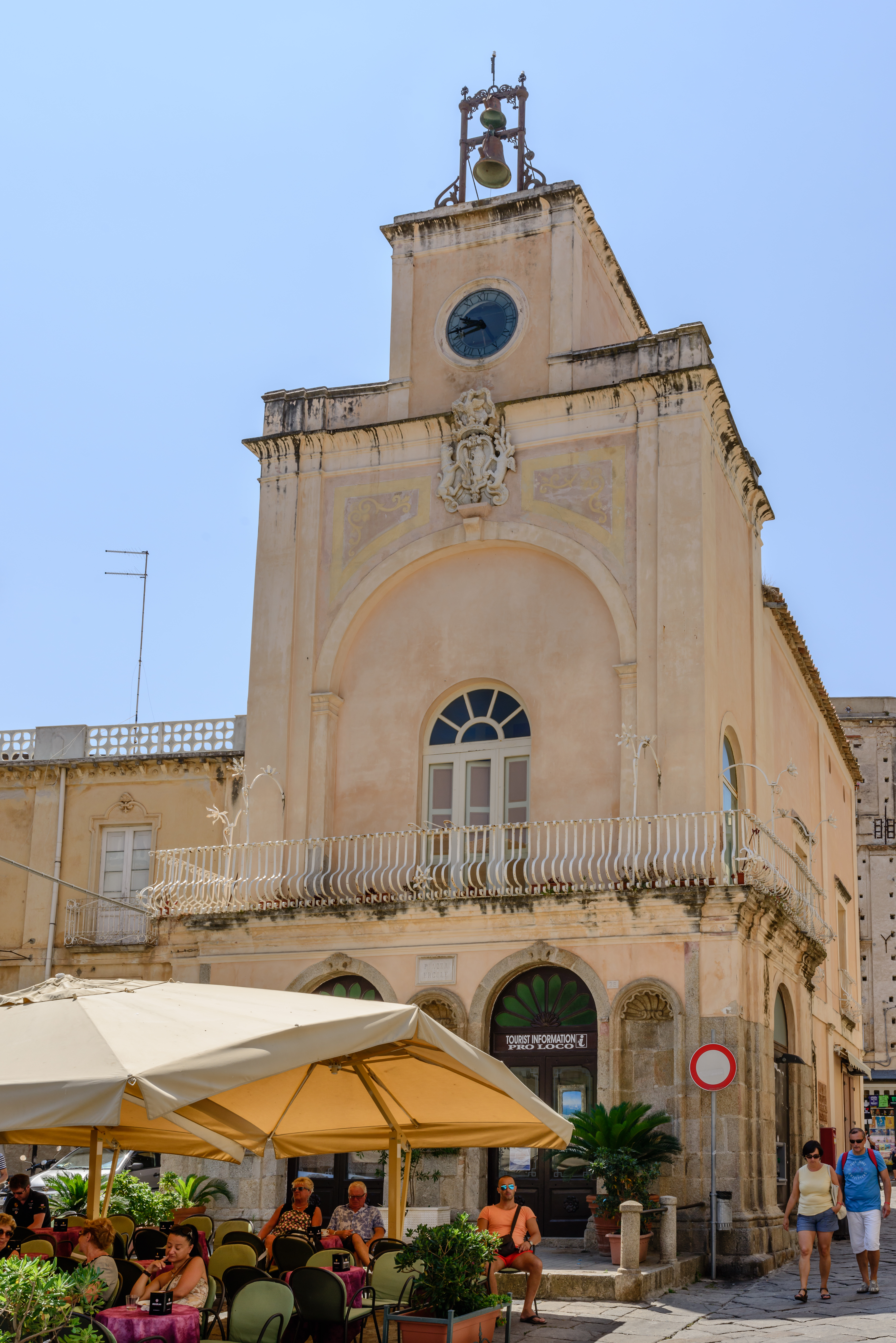 Tropea, Calabria, Italy.